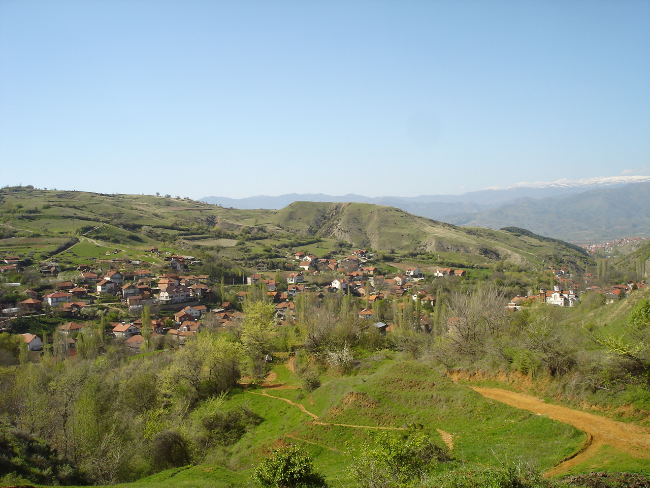 Gradec village near Vinica, Macedonia